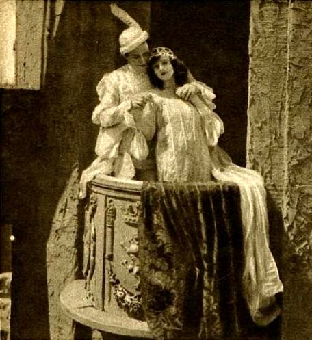 Still from the American comedy film Doubling for Romeo (1921) with Will Rogers and Sylvia Breamer, on page 24 of the December Screenland.